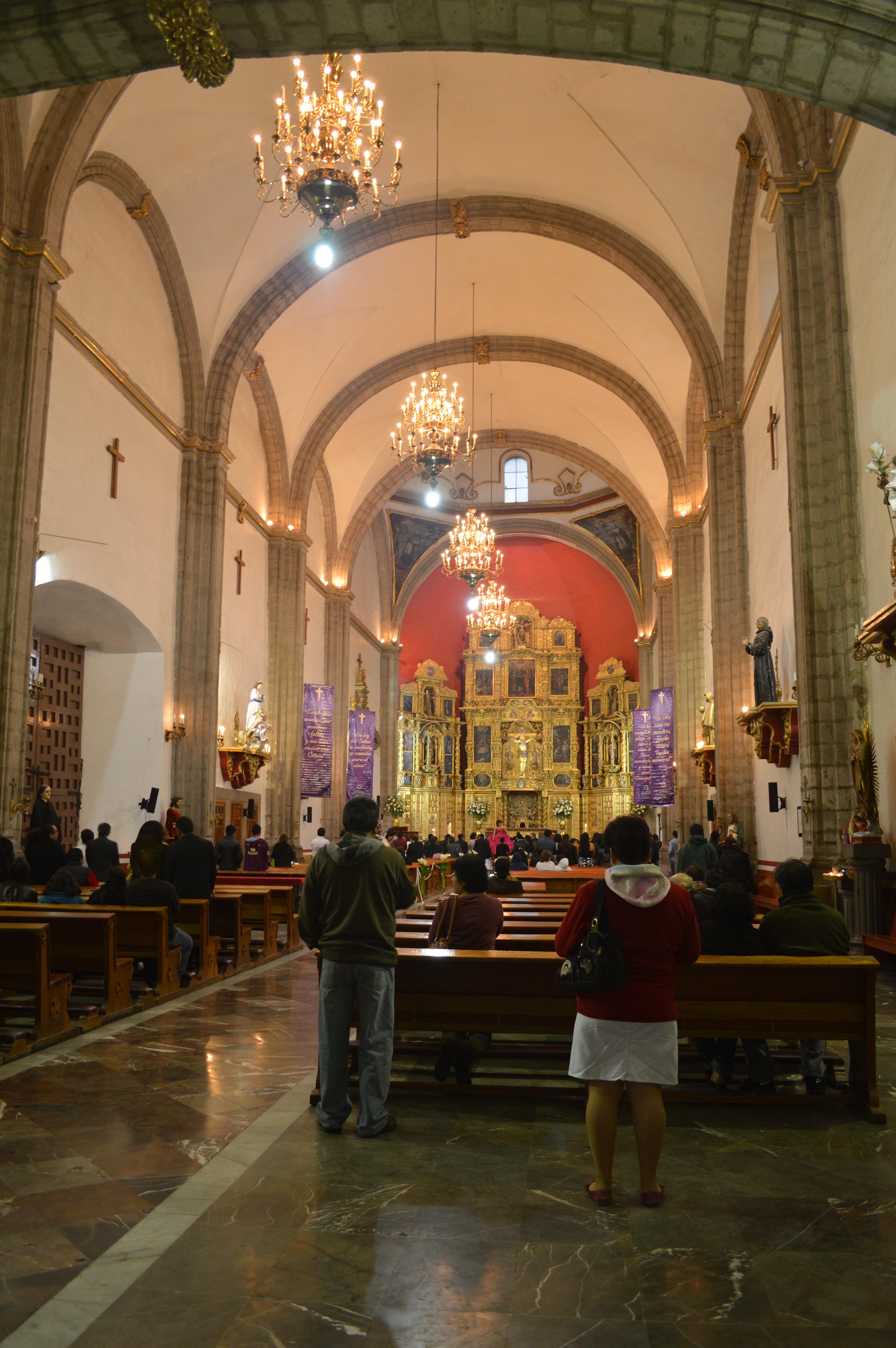 Interior of the Cathedral of Tlalnepantla, State of Mexico, Mexico